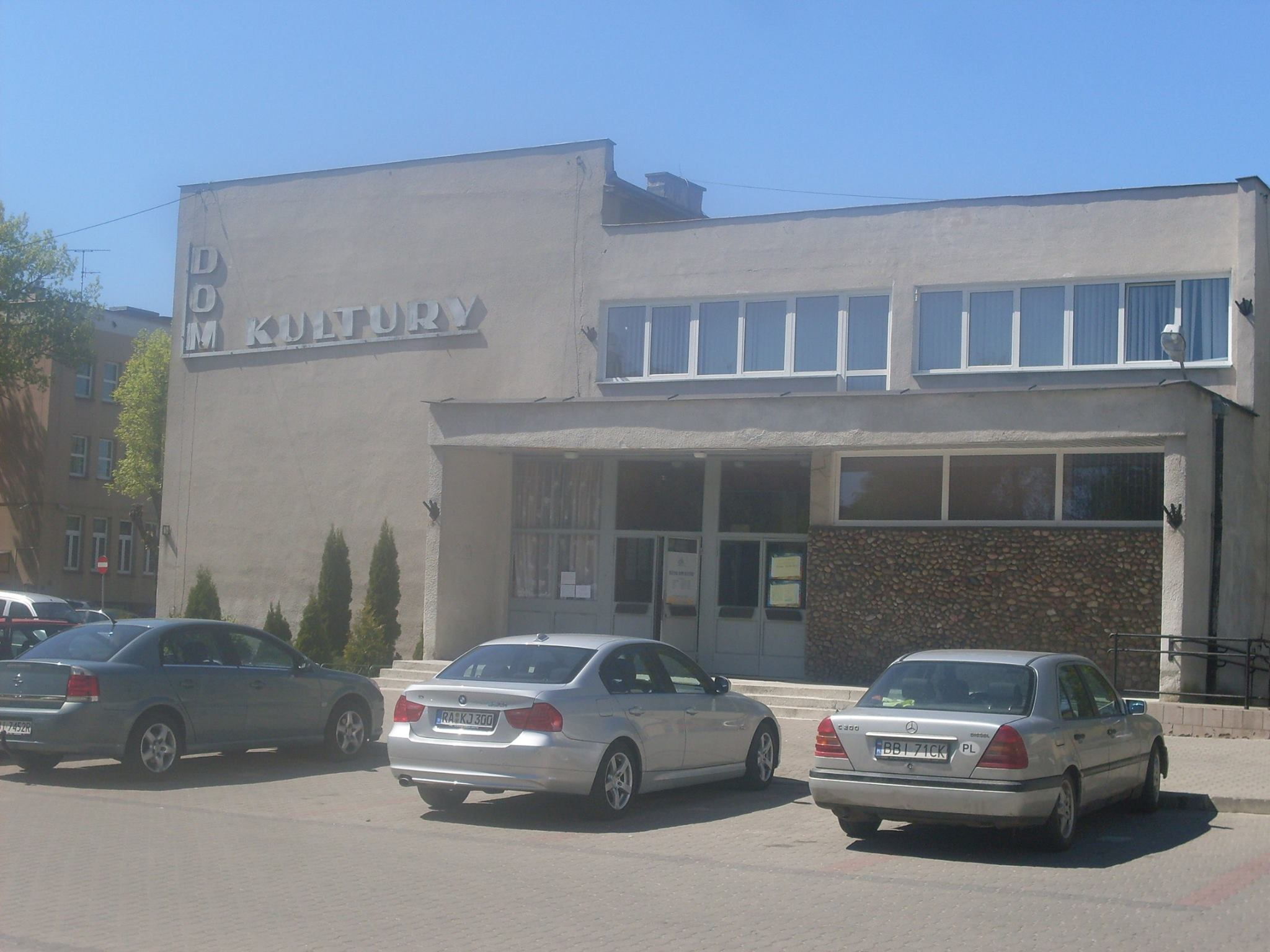 Bielski Dom Kultury